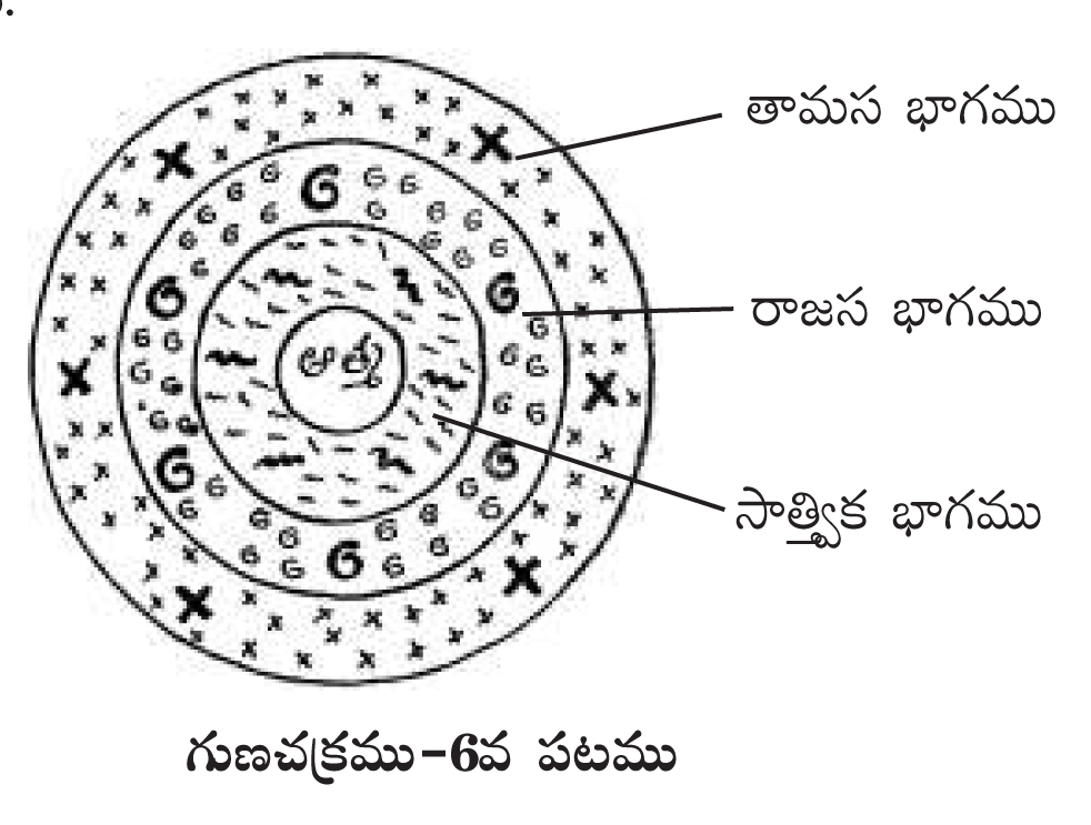 Guna Chakram